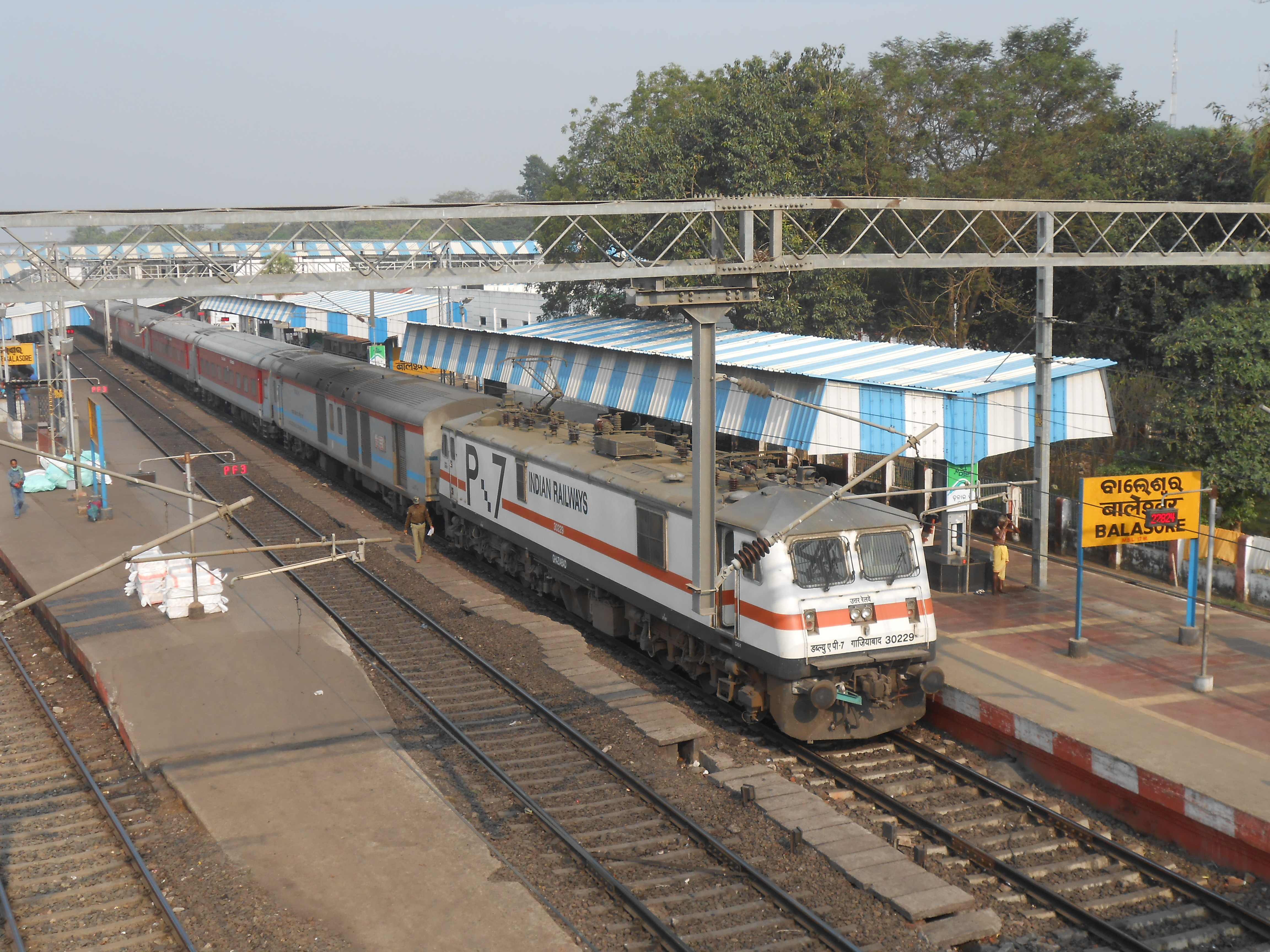 22824 New Delhi - Bhubaneswar Rajdhani Express with Ghaziabad WAP-7 at Balasore